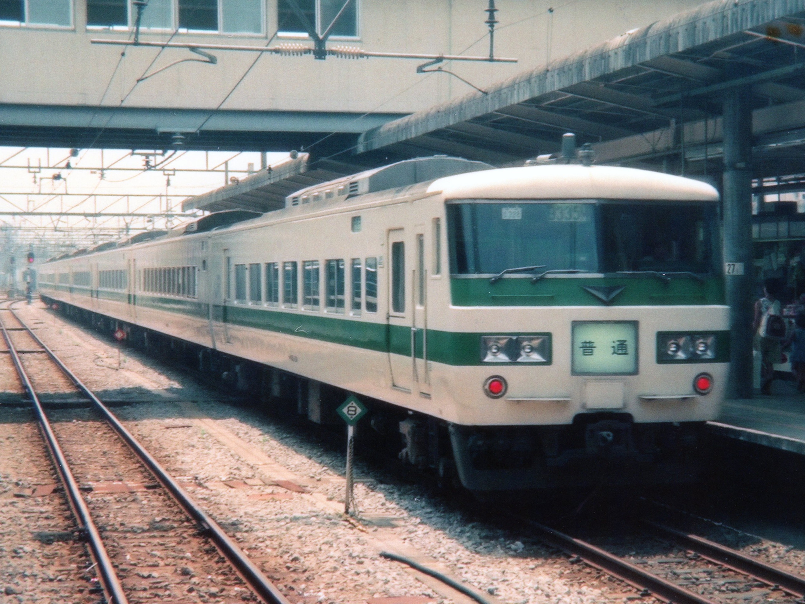 East Japan Railway Company, EMU Type 185 "Karuizawa Relay" at Takasaki Sta.